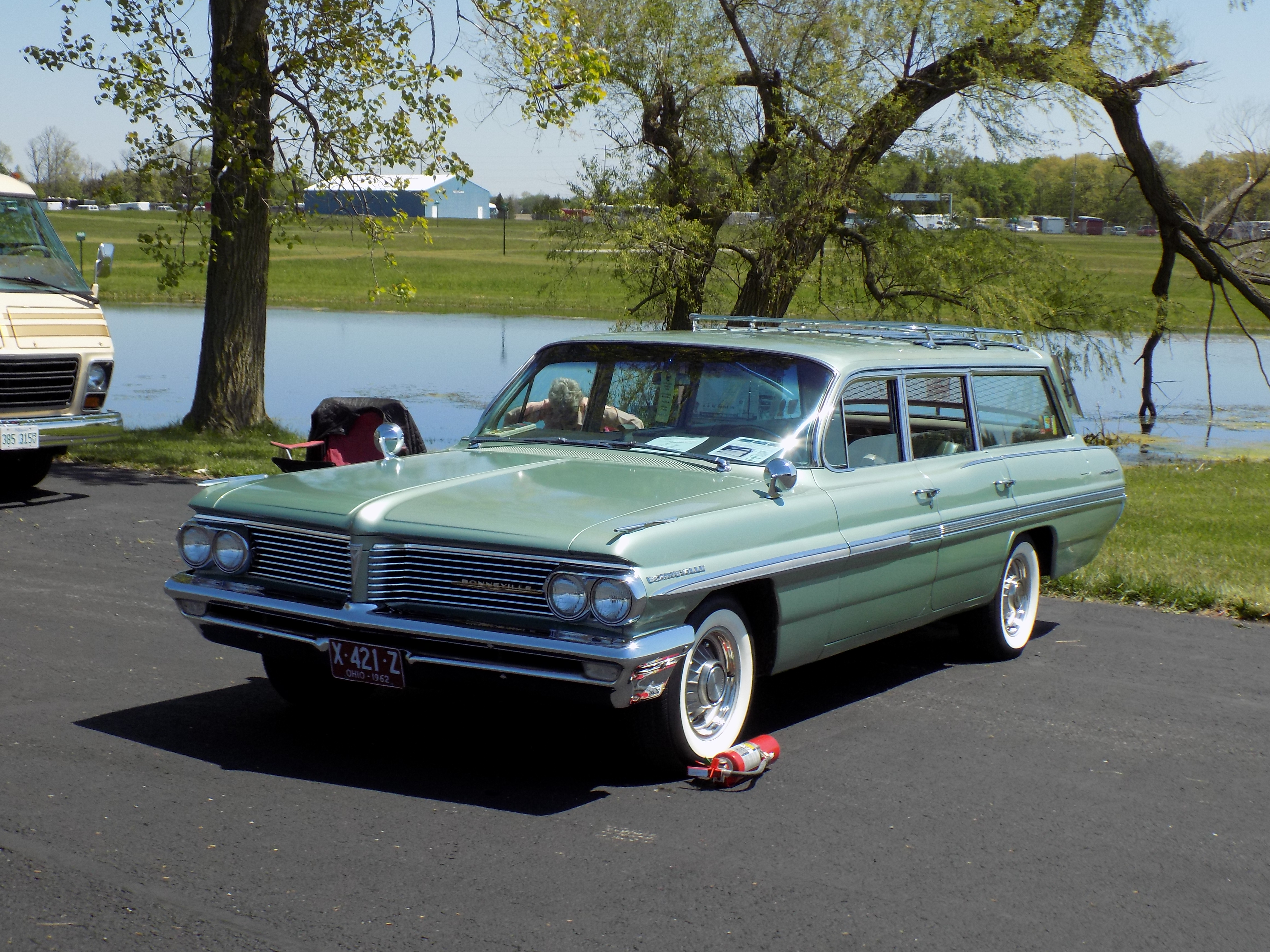 Triple Crown Antique Automobile Club of America (AACA) Classic Car Club Of America (CCCA) First Joint Meet Auburn Auction Park Auburn, Indiana May 2017 . Click here for more car pictures at my Flickr site. Or here for my Car Crazy Tumblr site. Or on Twitter @DVS1mn.